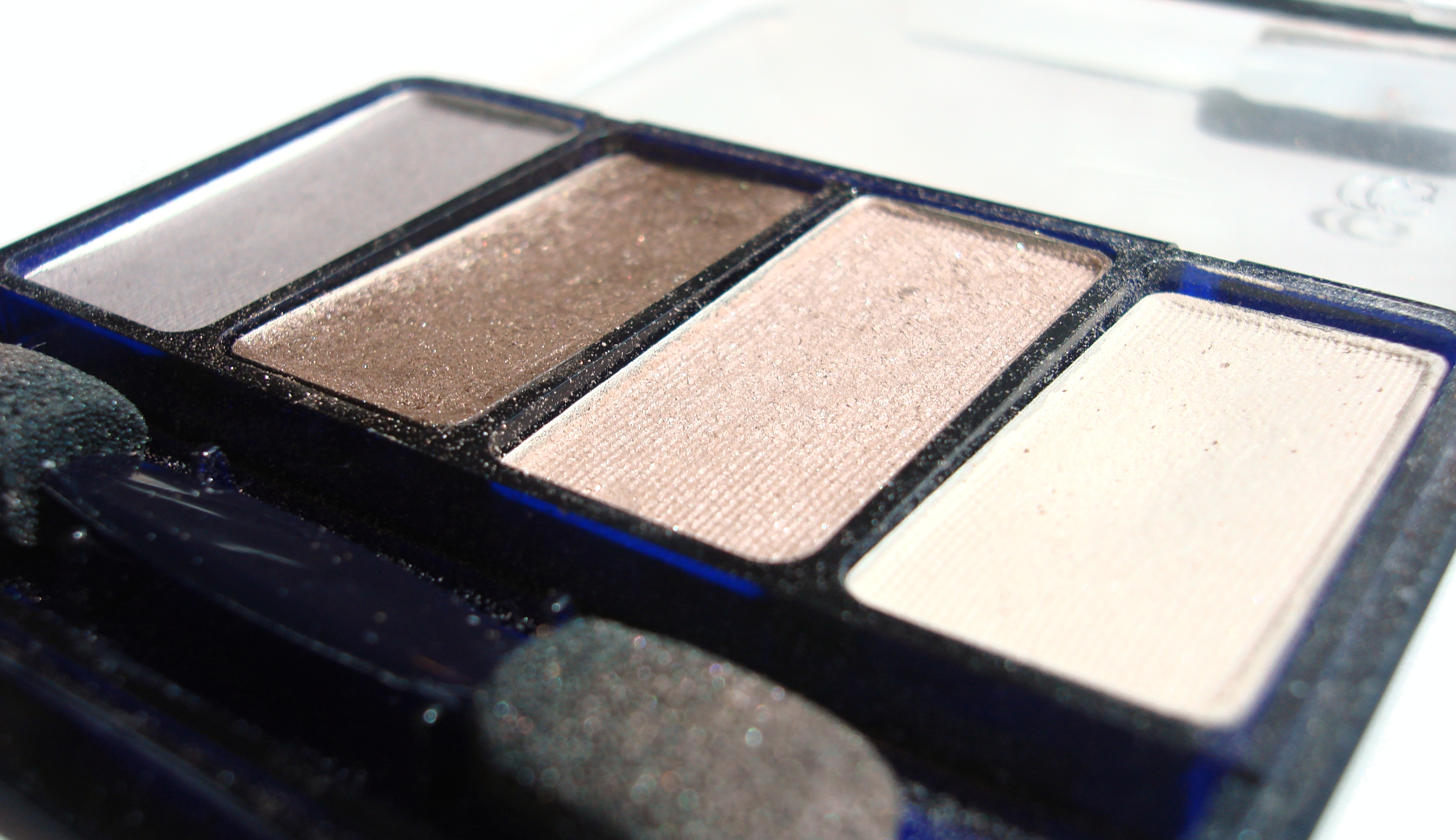 A palette of brown shades of powder eyeshadow. The two center colours are sparkly and the purple and white shades are for creating shadows and highlights.